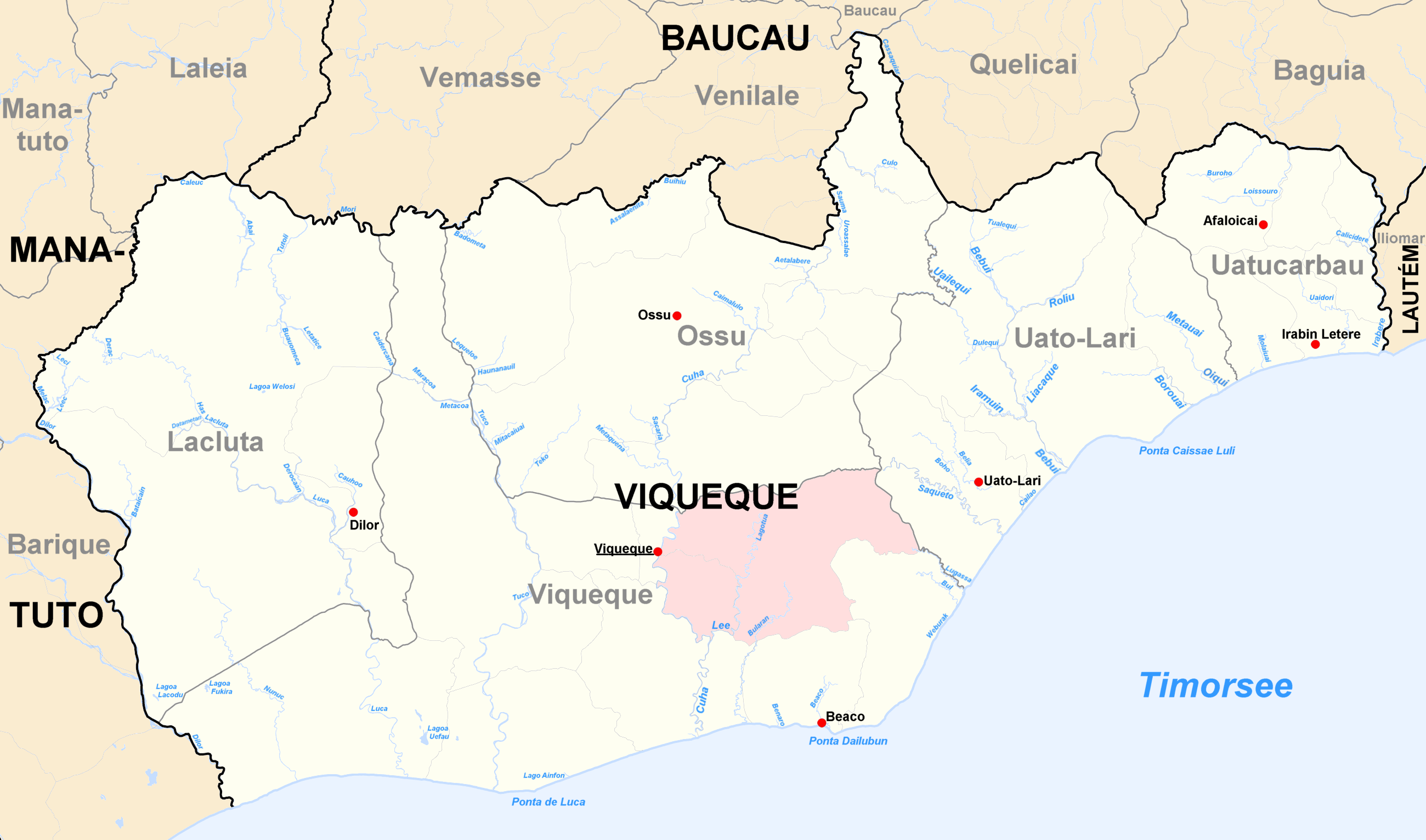 Cities and rivers of district of Viqueque (East Timor). Urban sucos in pink.